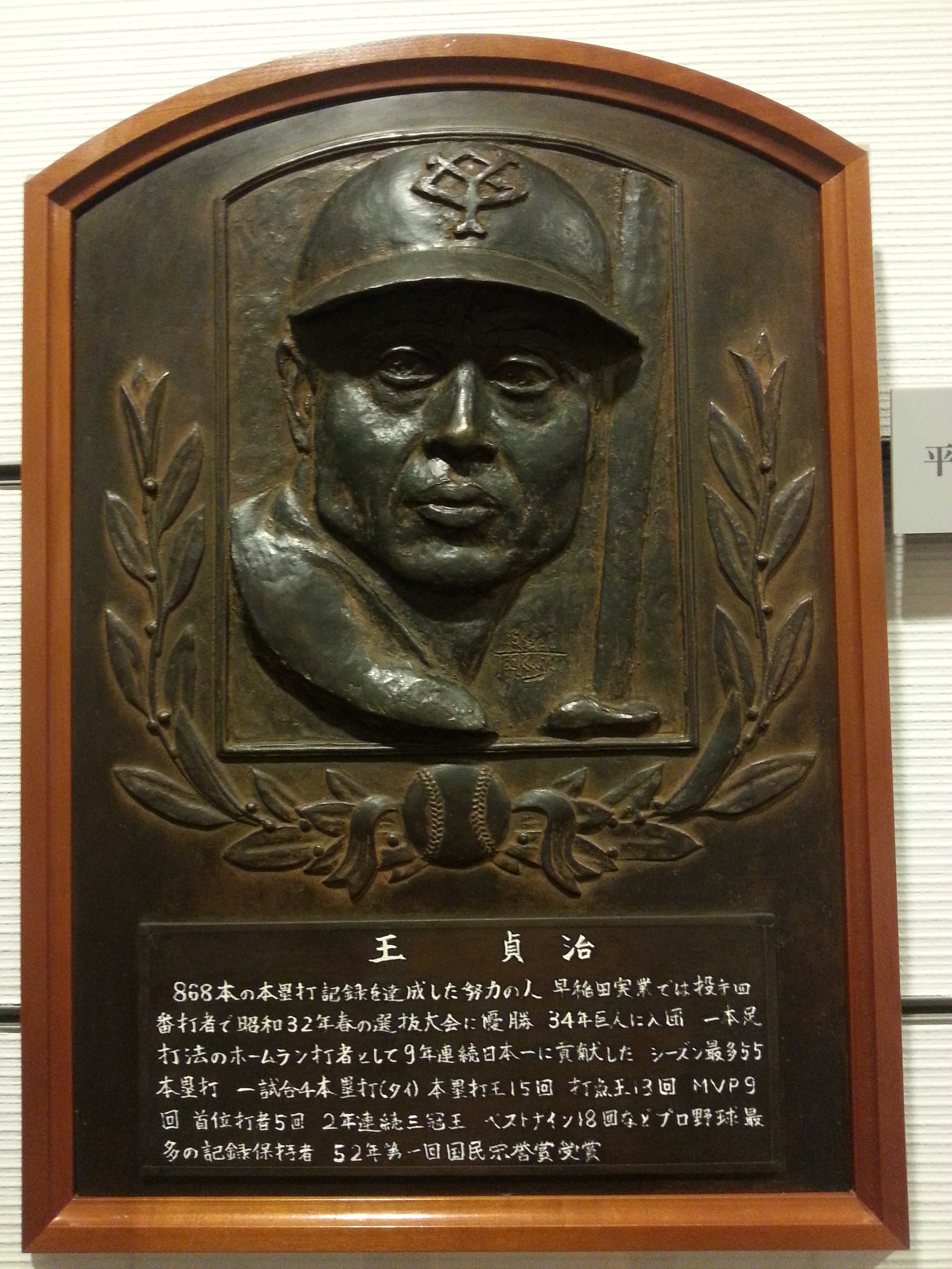 Sadaharu Oh at Japanese Baseball Hall of Fame